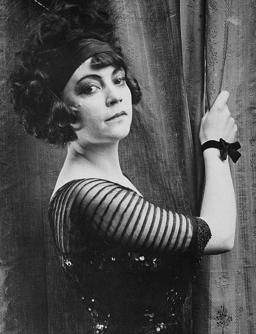 Danish actress Asta Nielsen (1881-1972) in her dress as Stella on the set of the danish silent movie The Black Dream (OT Den sorte drøm). The still ist not part of the movie, therefore it is no screen shot, but more likely a photograph made on the set.